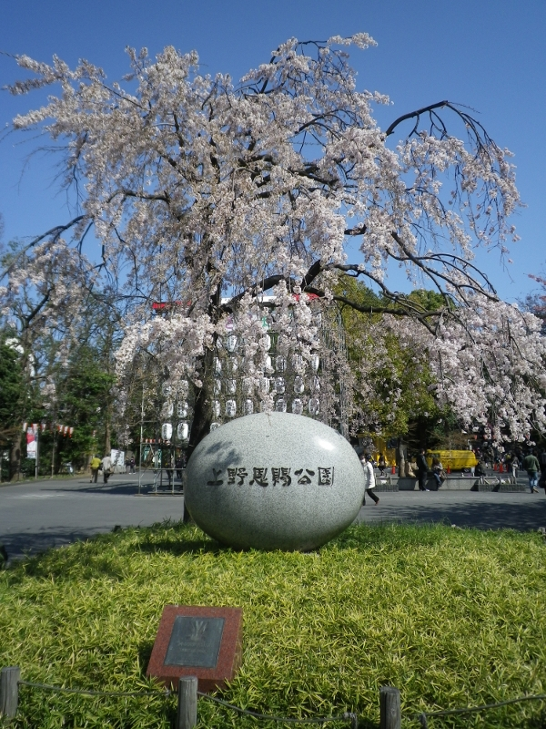 Ueno Park